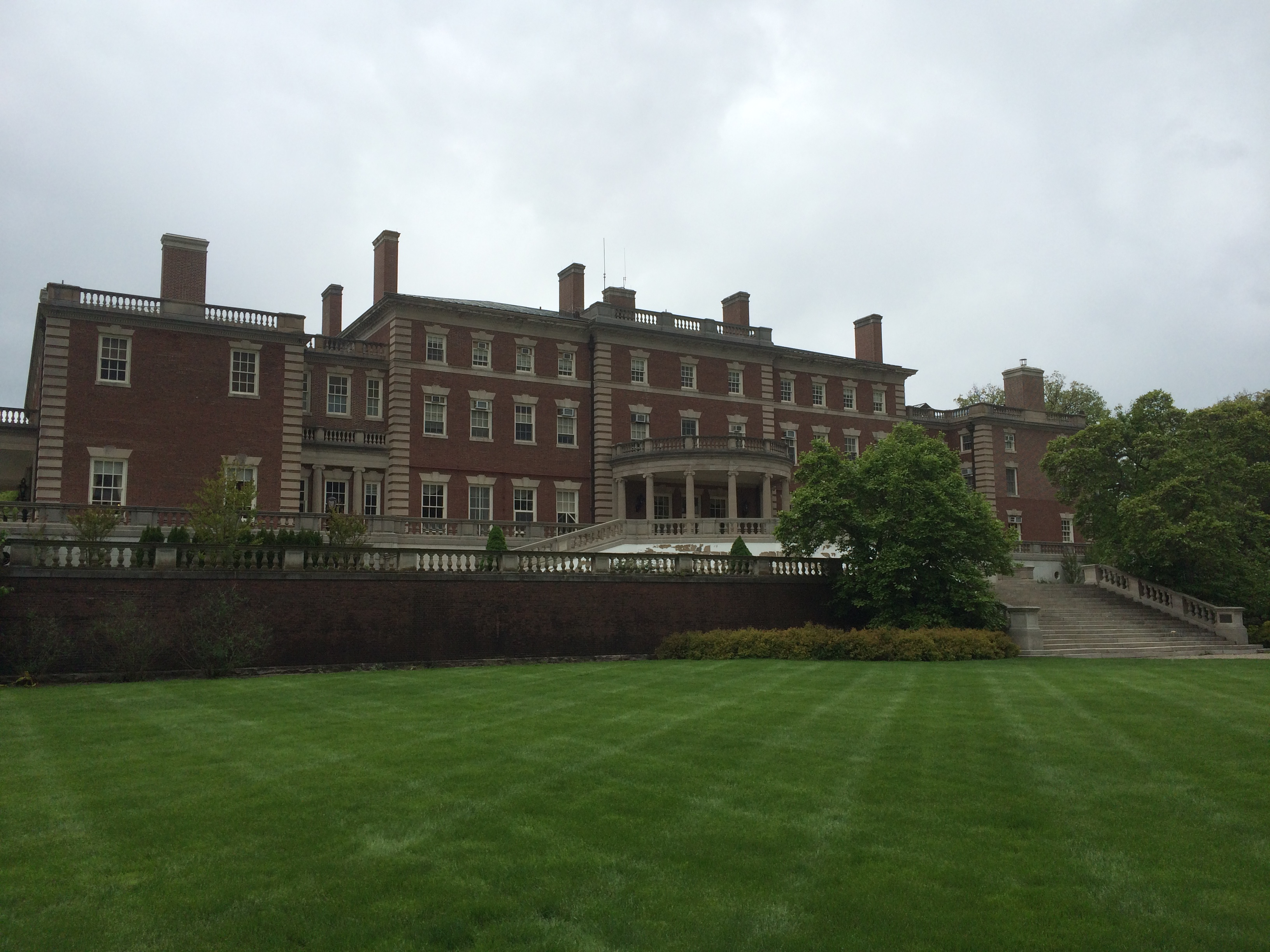 Florham, a Vanderbilt estate, now Fairleigh Dickinson University, from the lower Italian gardens.